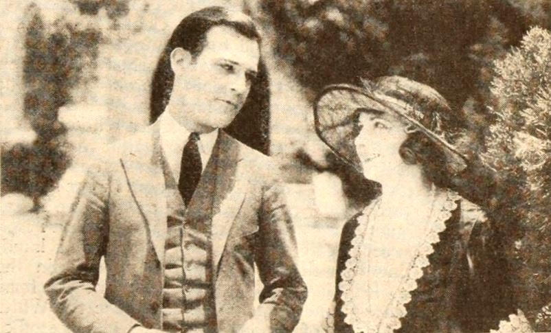 Still from the American crime drama film Play Square (1921) with Johnnie Walker and Edna Murphy, on page 63 of the November, 1921 Photoplay.